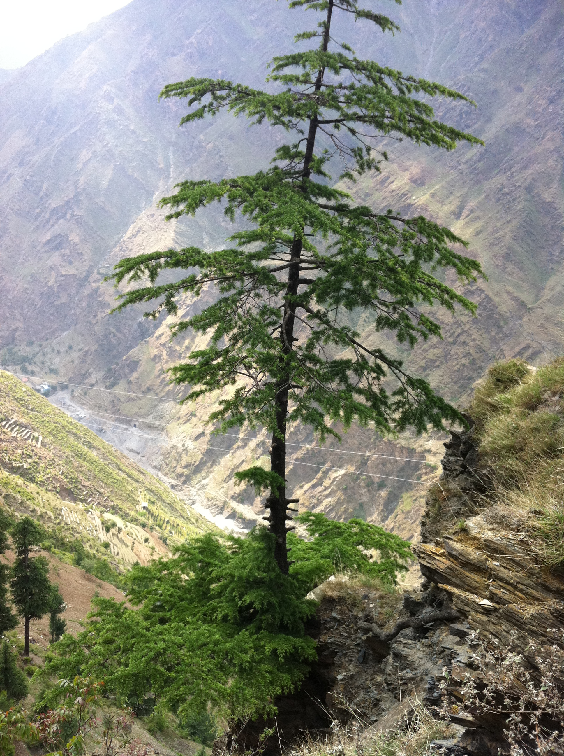 Sole Deodar standing